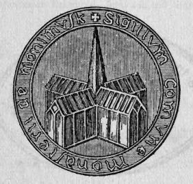 Published Aberdeen, 1895